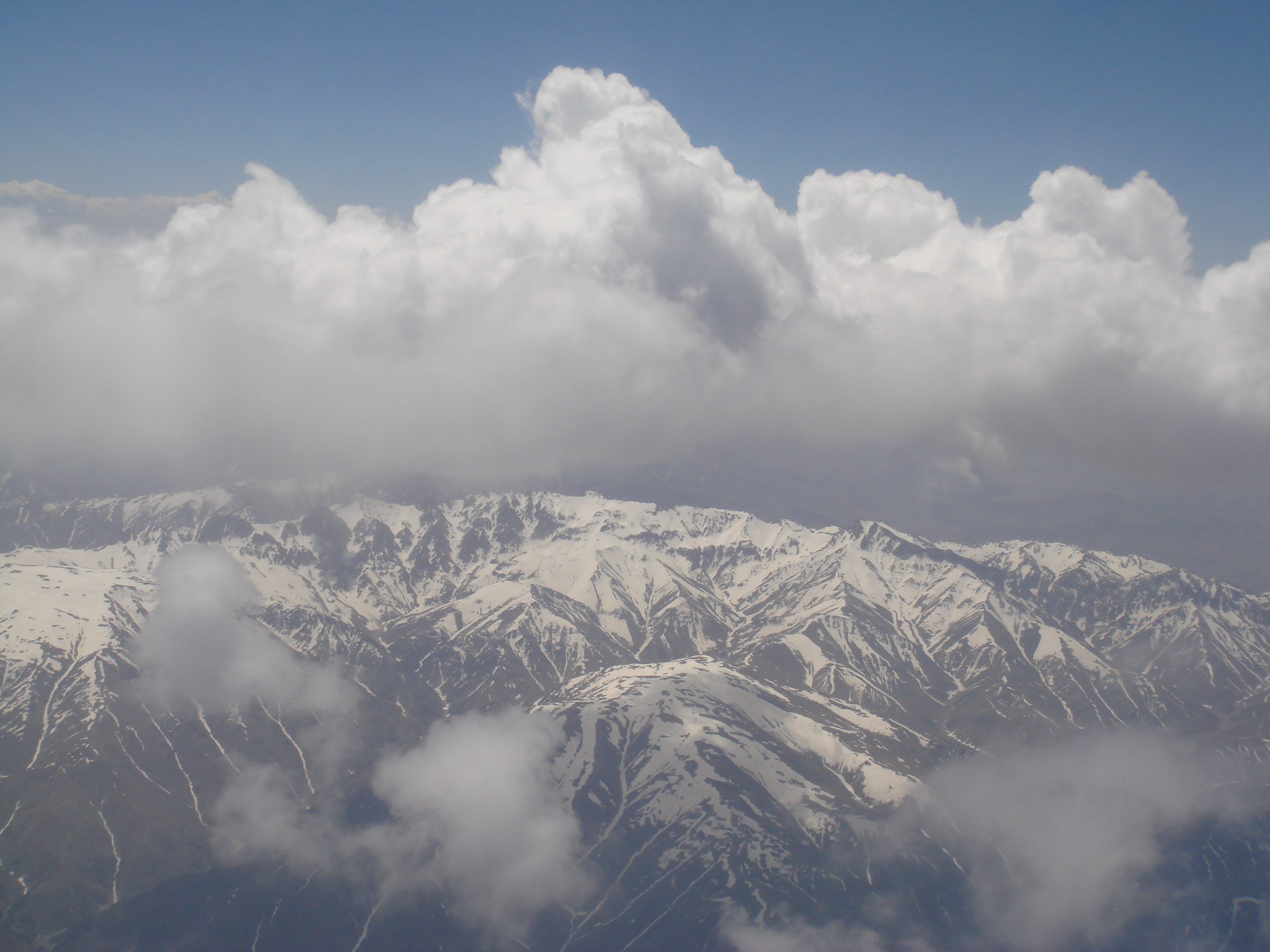 Mountains of Afghanistan